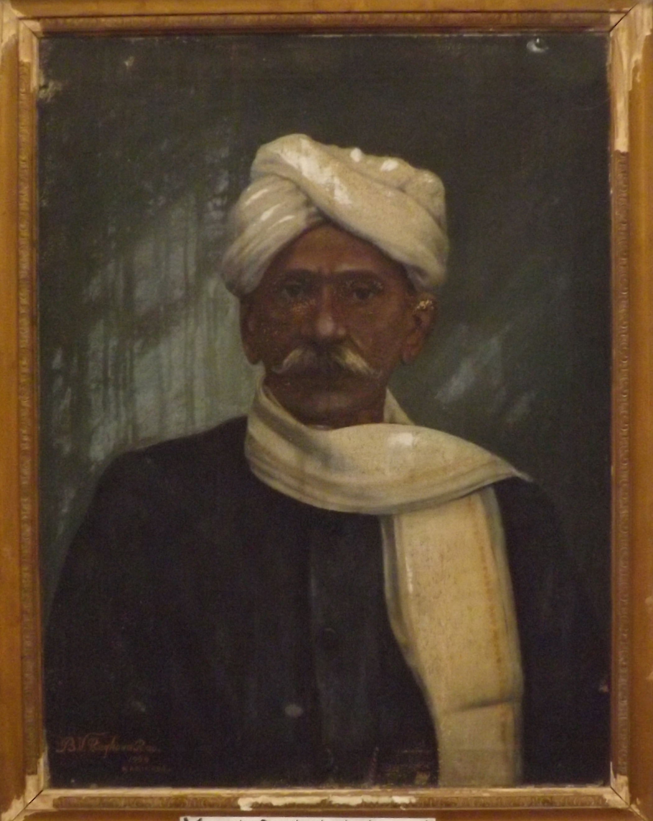 Andhra Sahitya parishat ( ANDHRA SAHITYA PARISHAD GOVERNMENT MUSEUM AND RESEARCH INSTITUTE ) Kakinada